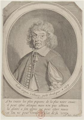 Charles Coypeau d'Assoucy, poète burlesque (mort en 1679)